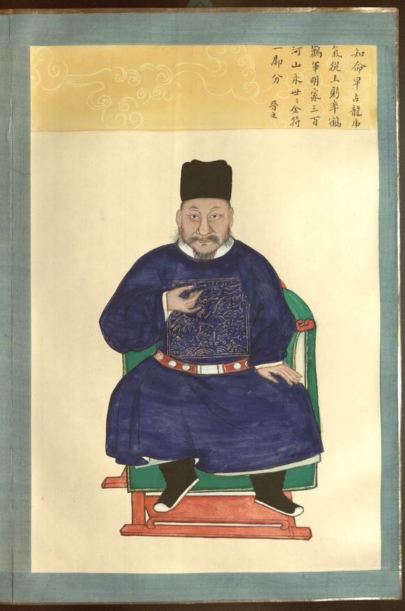 Mu De, a local commander of Lijiang